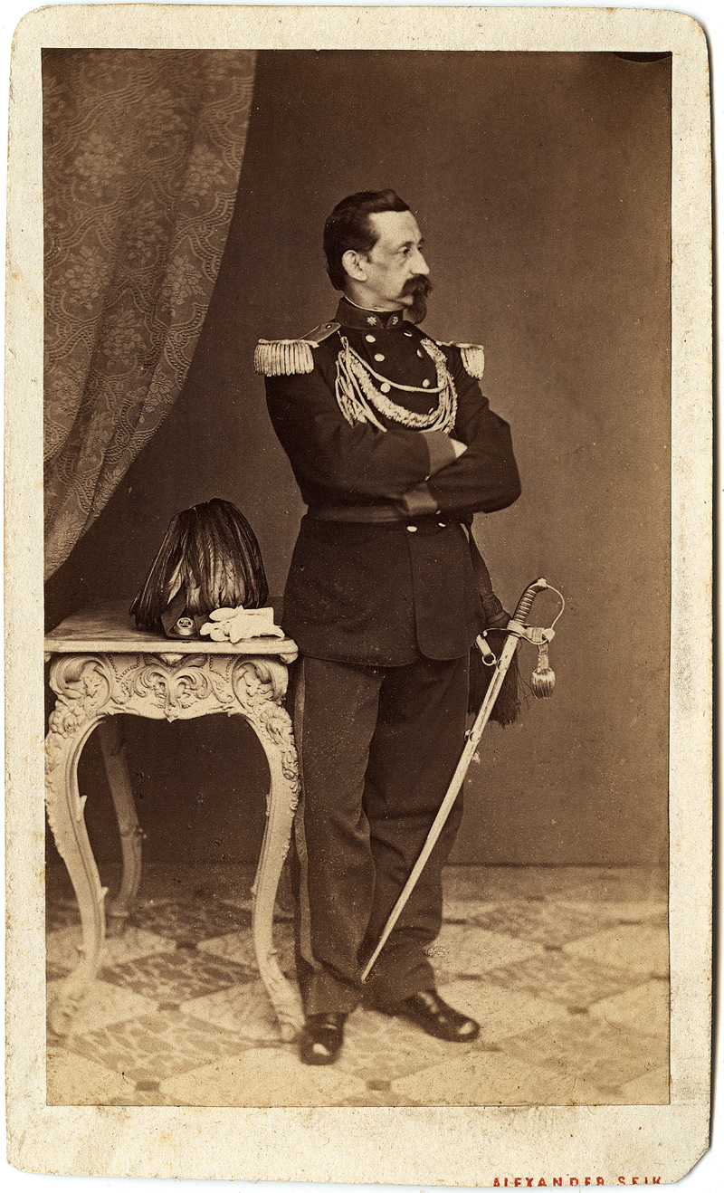 Self-portrait in sharp shooter uniform, carte de visite.